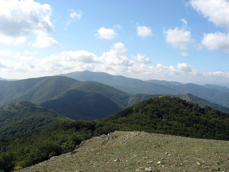 Monteforte (foreground) and Pierfaone from the peak of Serra Netta (1.475 m)